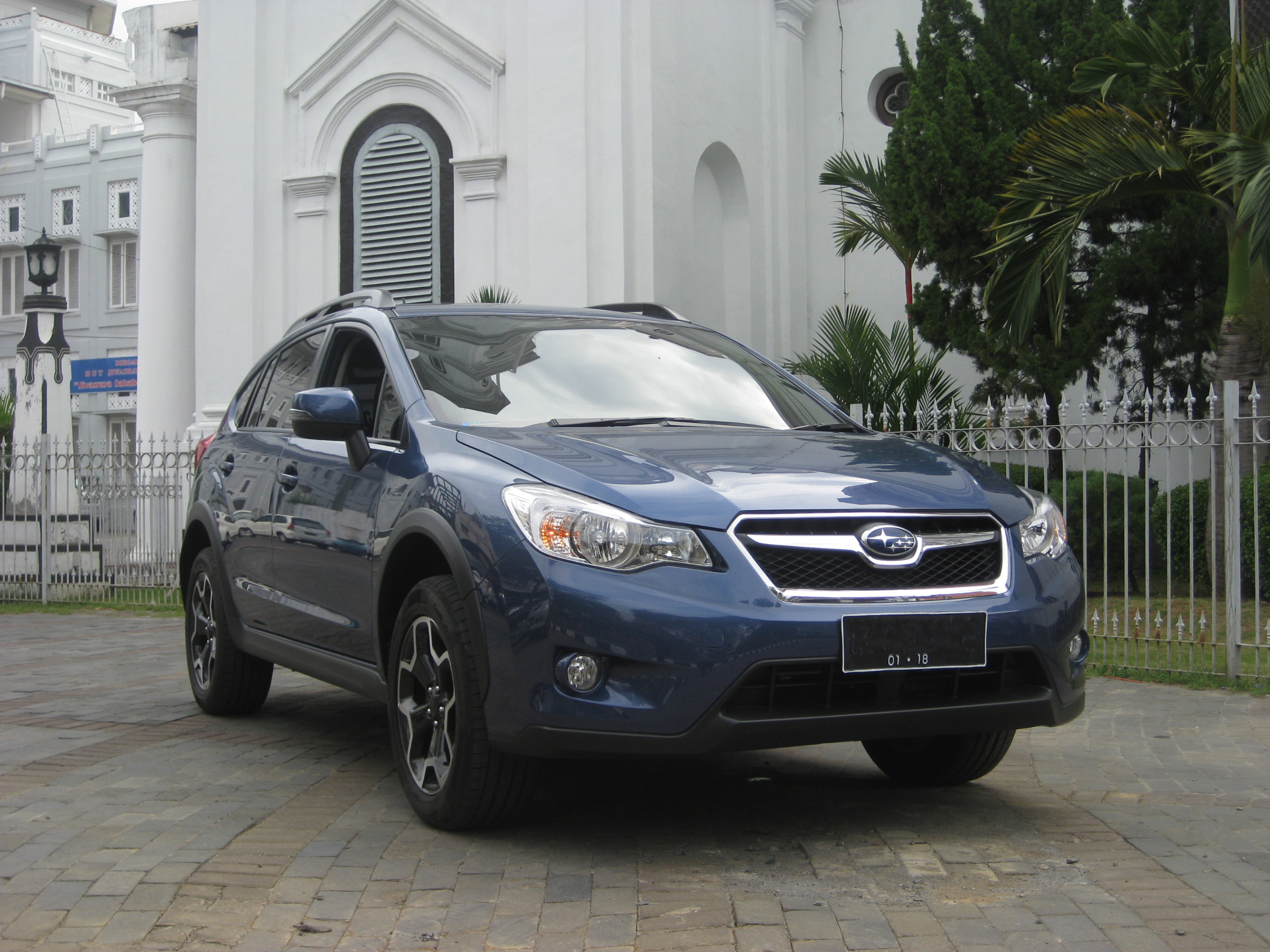 2013 Subaru XV 2.0i Premium (GP7) shown in Marine Blue Pearl, photographed in Semarang, Indonesia.